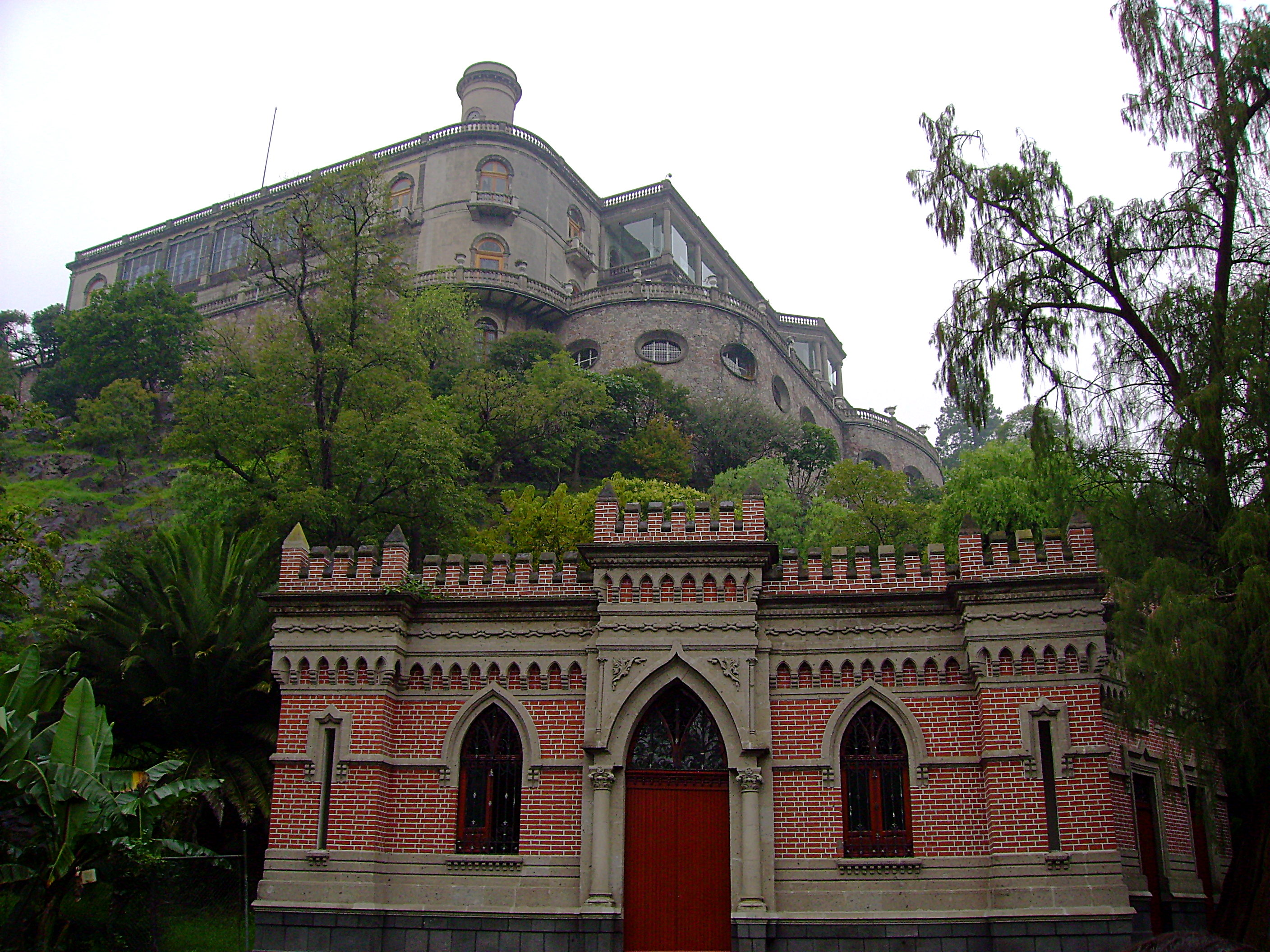 Description Chapultepec Castle, in Ciudad de Mexico Author/Source Photo taken by Nuno Tavares, Nov-2006